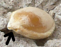 Cucurbita maxima Zapallo Plomo semillería Costanzi - 2014 04 19 squash 0 - seed and oblique scar